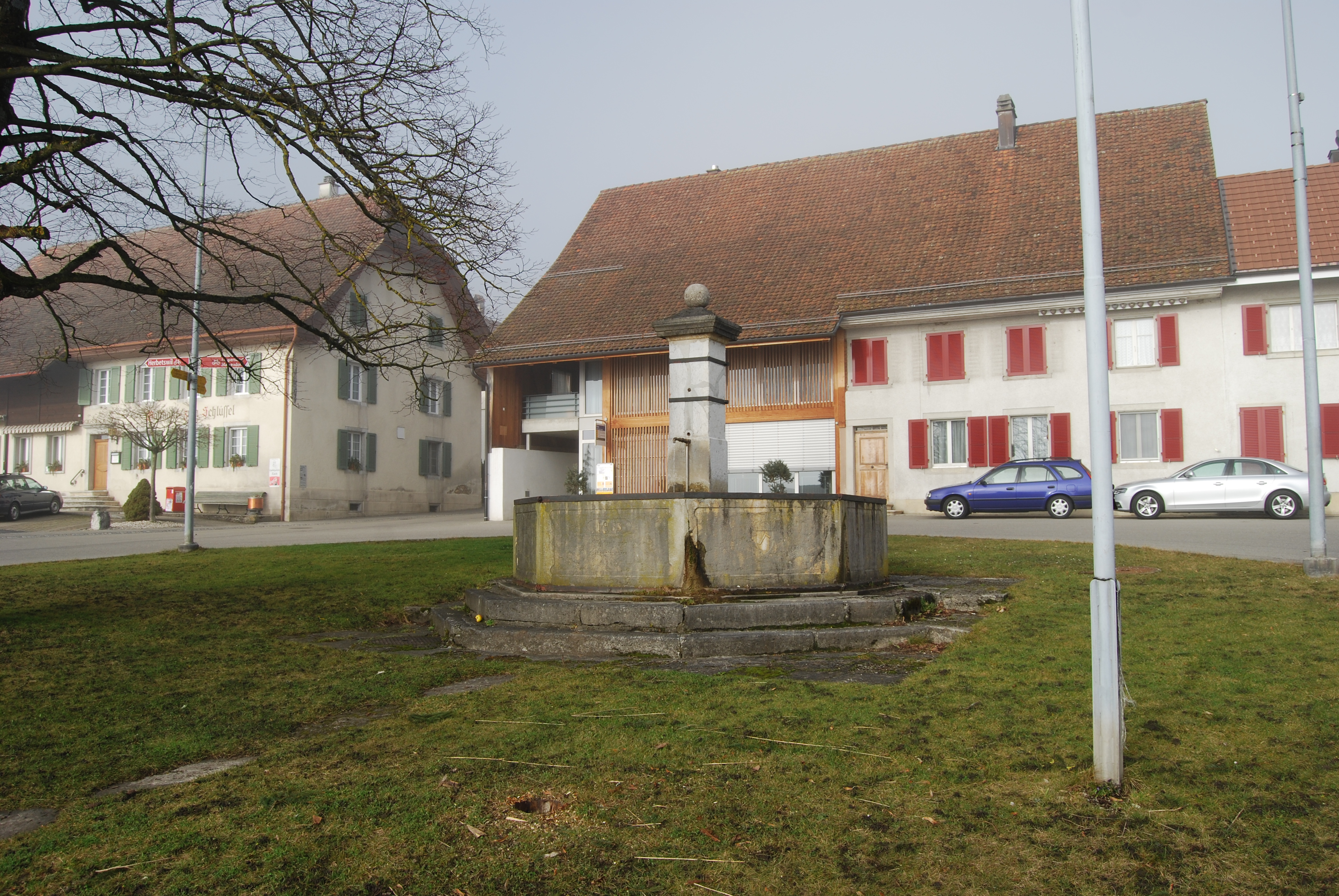 Aedermannsdorf, canton of Solothurn, SwitzerlandEsperanto: Aedermannsdorf, Kantono Soloturno, Svislando